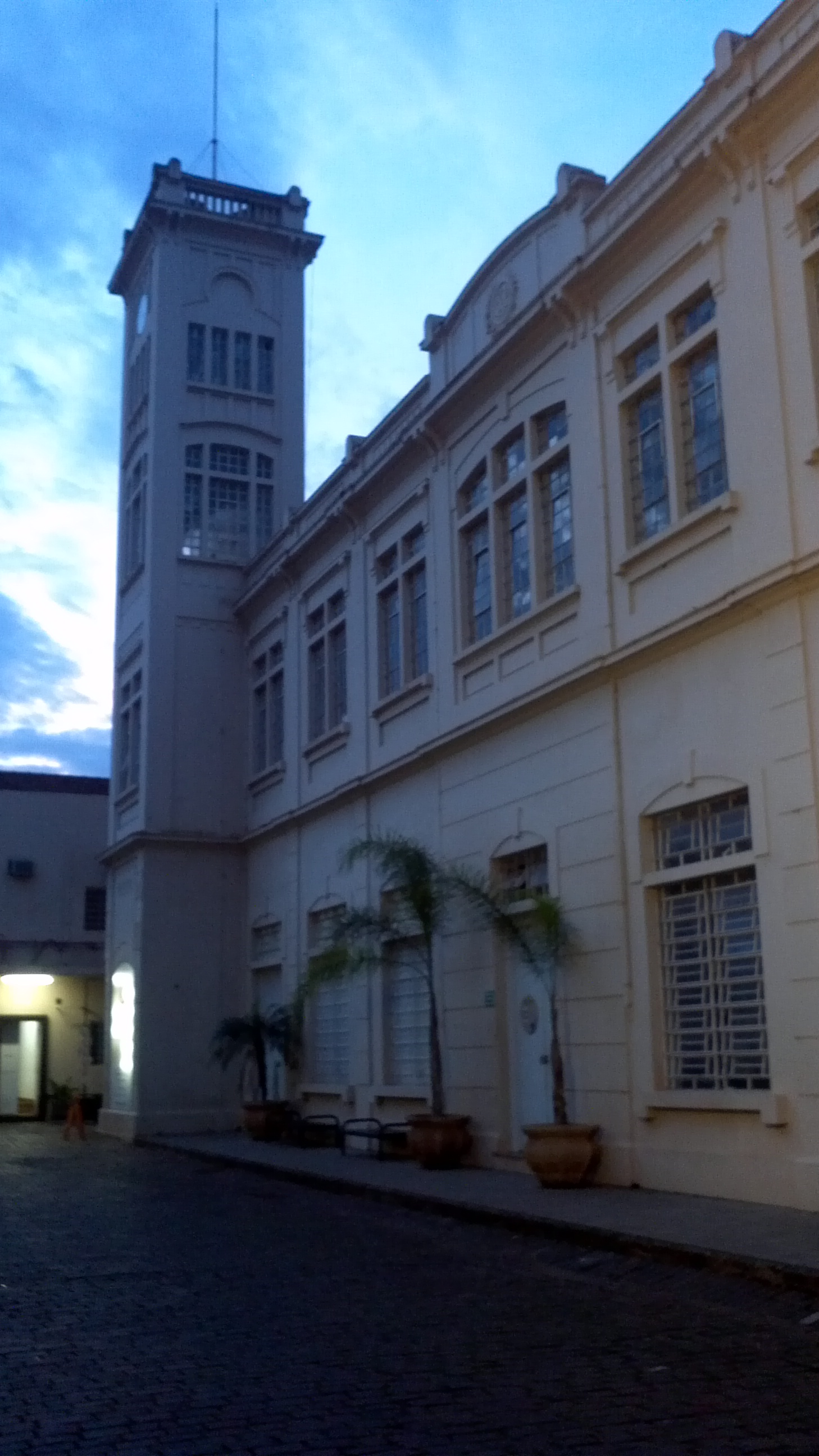 Internal space of the Kaiser Film Studios, located in the city of Ribeirão Preto, state of São Paulo.